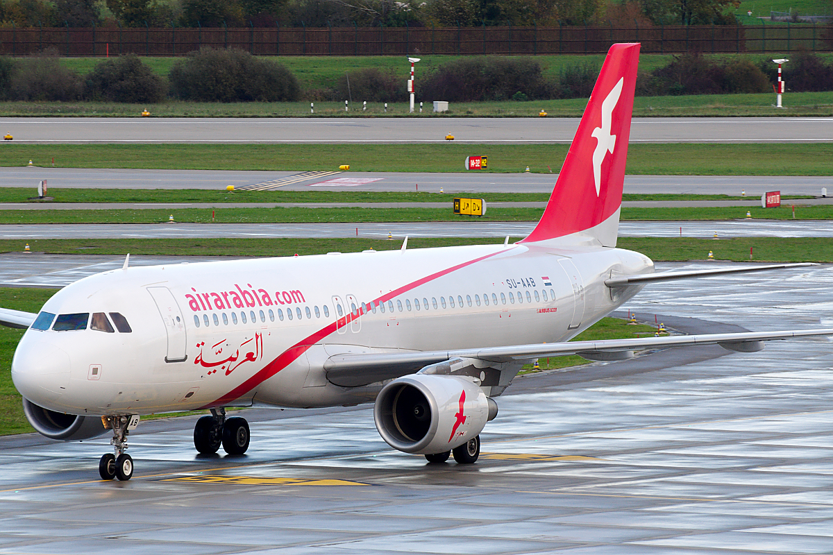 An Air Arabia Egypt A320 in Zurich Kloten